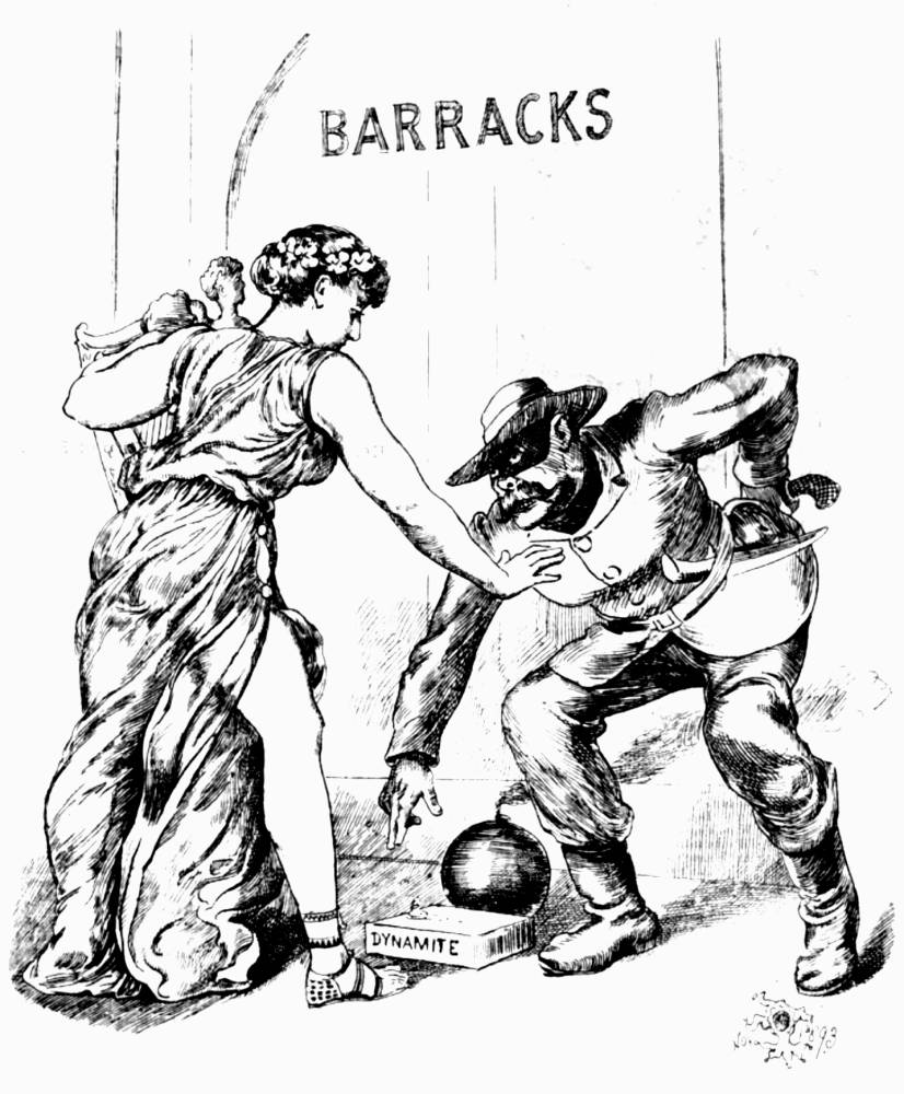 Erin.: — “Hold! You have done me harm enough!” Refers to Fenian dynamite campaign